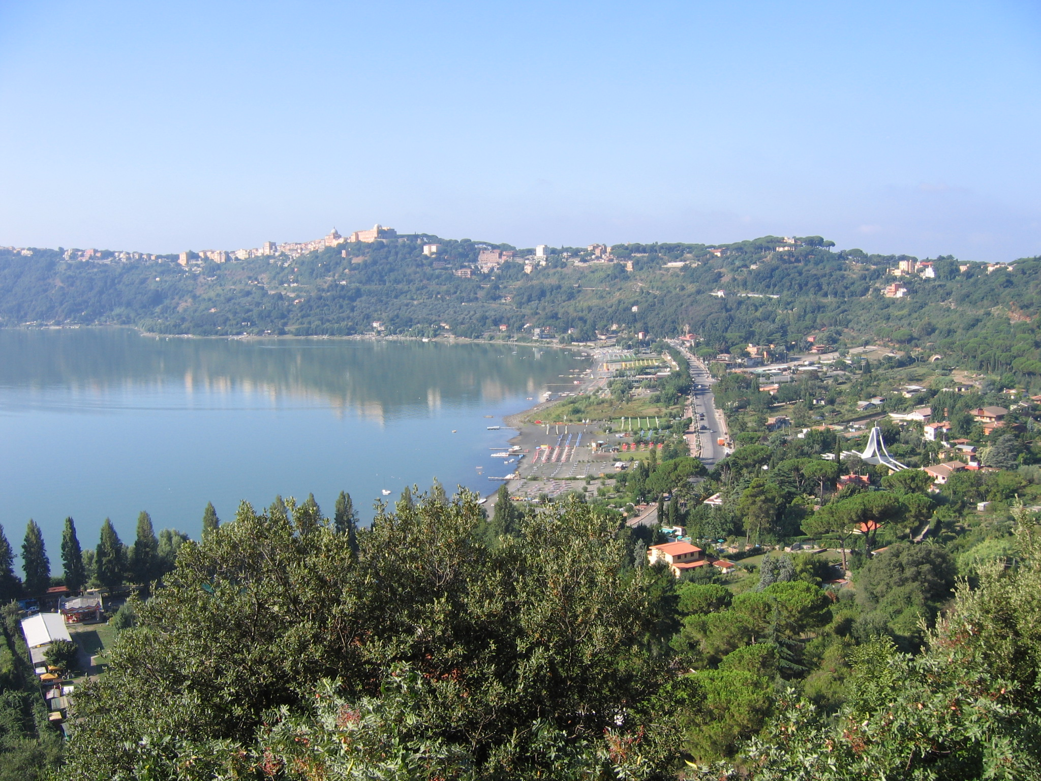 Municipality of Castel Gandolfo and the lake Albano, in Italy.